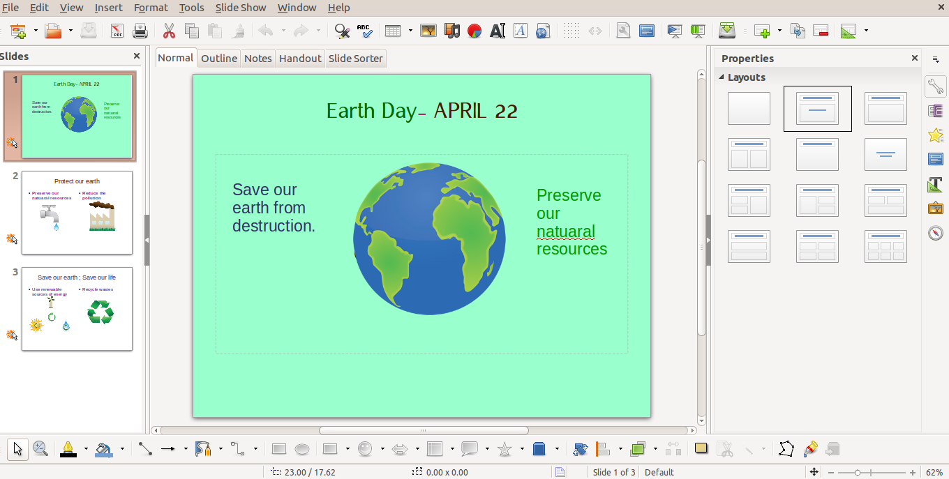 Screenshot of Libre Office Impress in Linux